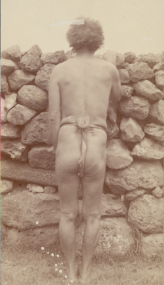 Man in Costume Near Stone Wall of Ahu (Platform) (Back View) December 1886. Photo Lot 97 DOE Oceania: Easter Island: NM 20511 04950600, National Anthropological Archives, Smithsonian Institution Pakomīo Māʻori in an ancient hami or loincloth. poses.for a photograph during the USS Mlohican's visit to Easter Island in 1886. Incidentally. he also revealed the whiteness of his skin and the lightness of his hair. despite a flaw in the photograph.